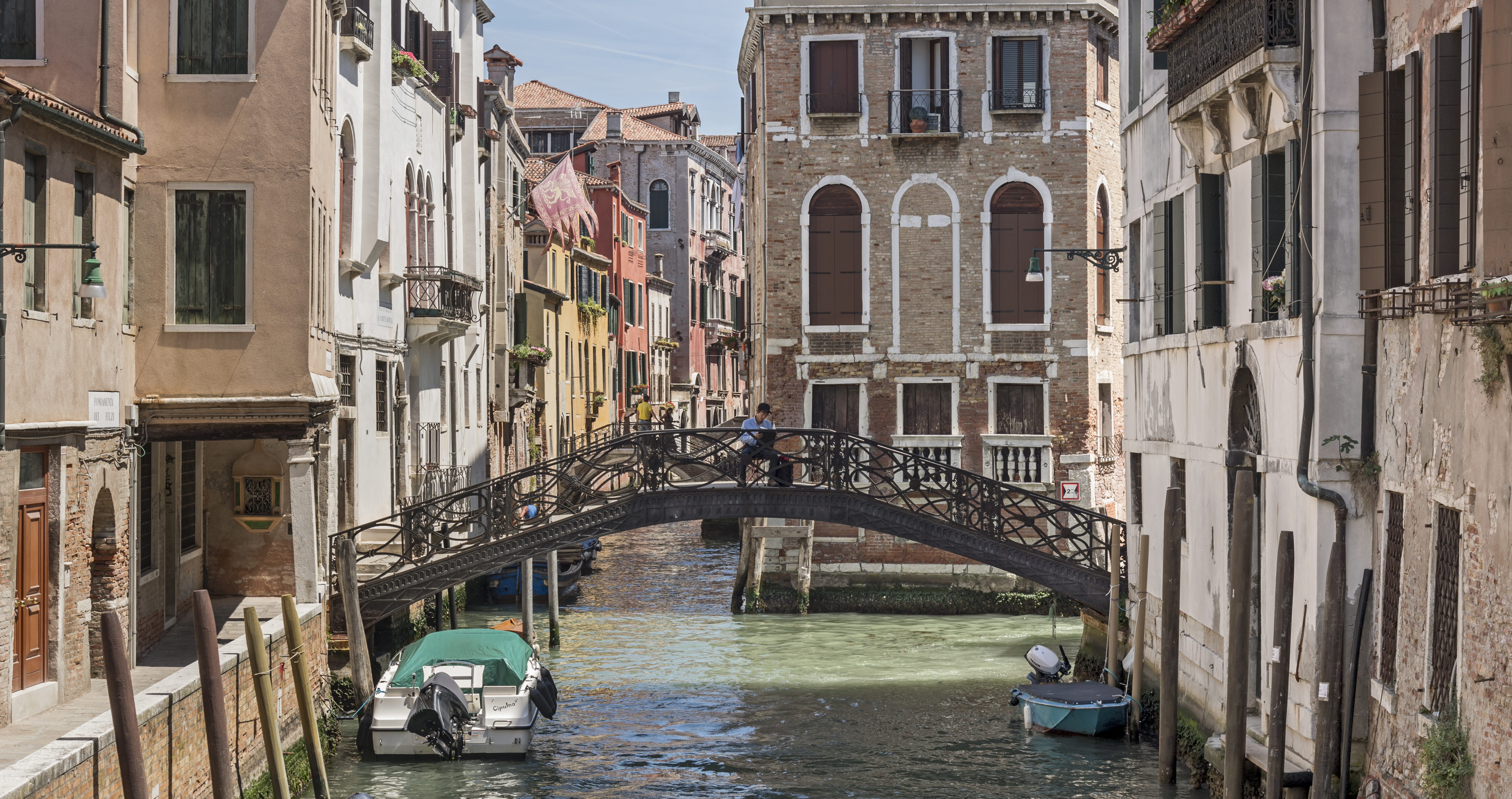 Ponte Consafelzi, on Rio del Paradiso or (rio del Pestrin) in Venice.